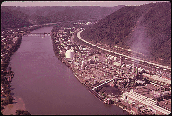 Dupont Belle Works on Route 69 at Belle, West Virginia, June 1973